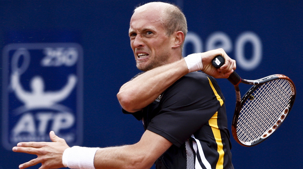 Nikolay Davydenko at 2009 Estoril Open, Oeiras, Portugal